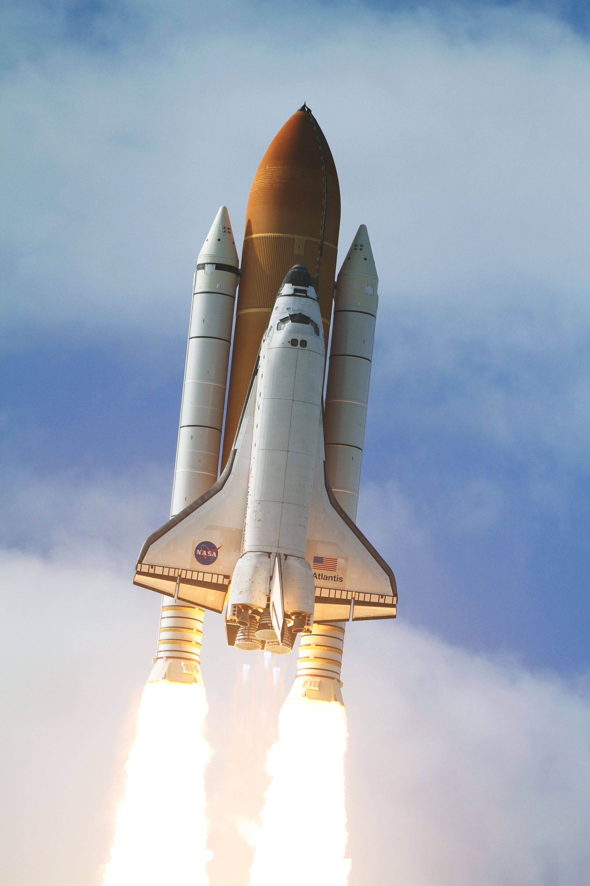 Space shuttle Atlantis and its six-member STS-129 crew head toward Earth orbit and rendezvous with the International Space Station. Liftoff was on time at 2:28 p.m. (EST) on Nov. 16, 2009 from launch pad 39A at NASA's Kennedy Space Center, Florida. Onboard are astronauts Charles O. Hobaugh, commander; Barry E. Wilmore, pilot; along with Leland Melvin, Mike Foreman, Robert L. Satcher Jr. and Randy Bresnik, all mission specialists. Atlantis will deliver two Express Logistics Carriers to the station, the largest of the shuttle's cargo carriers, containing 15 spare pieces of equipment including two gyroscopes, two nitrogen tank assemblies, two pump modules, an ammonia tank assembly and a spare latching end effector for the station's robotic arm. Atlantis will return to Earth a station crew member, Nicole Stott, who has spent almost three months aboard the orbiting laboratory. STS-129 is slated to be the final space shuttle Expedition crew rotation flight